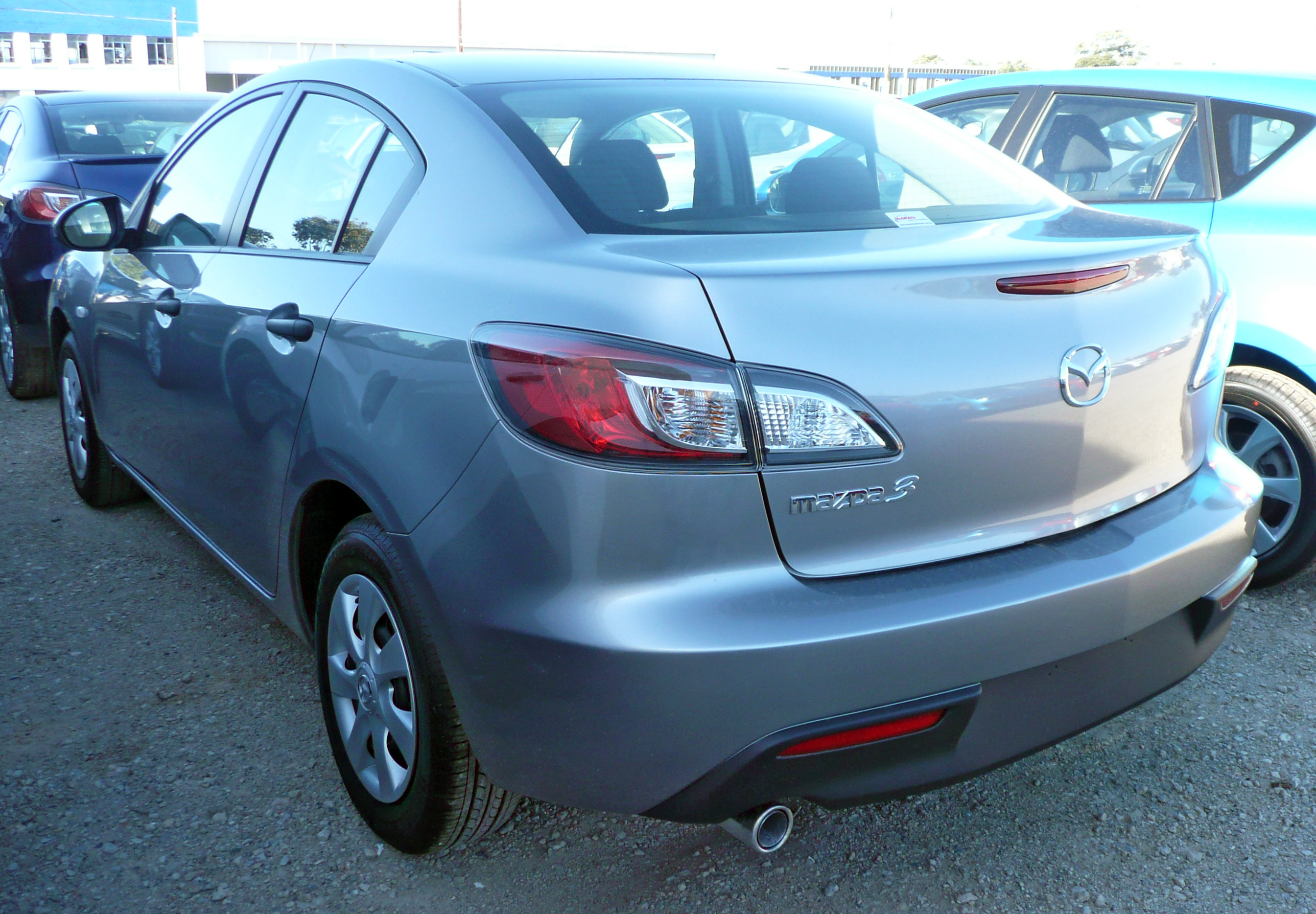 2009 Mazda3 (BL) Neo sedan. Photographed in Kirrawee, New South Wales, Australia.